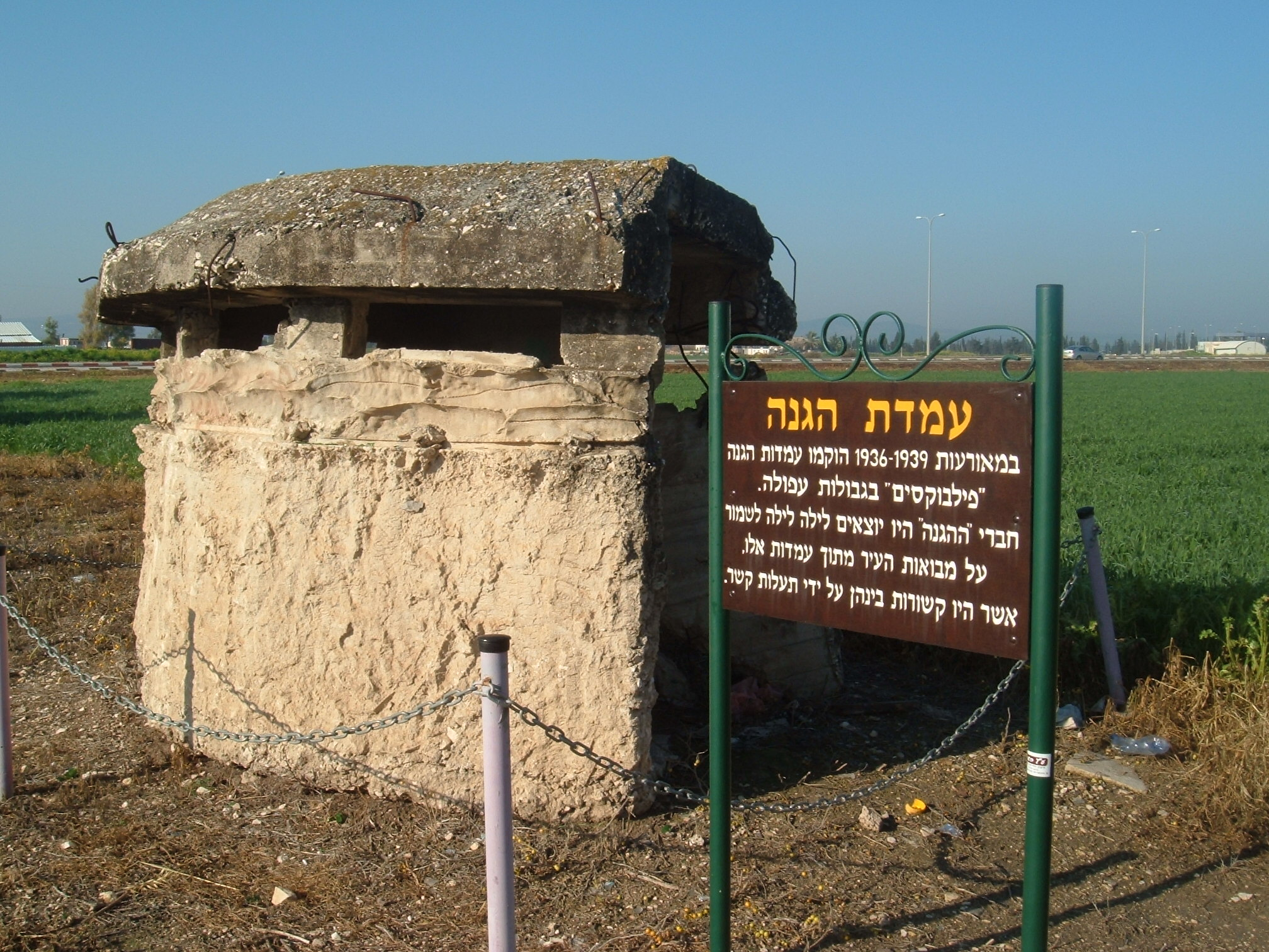 old pillbox in Afula עמדת פילבוקס במבואות עפולה